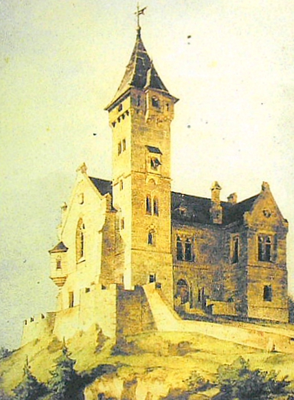 Falkenstein castle near Pfronten (Landkreis Ostallgäu, Bavaria, Germany). Castle project for Ludwig II. at the Falkenstein (1884, Georg von Dollmann)